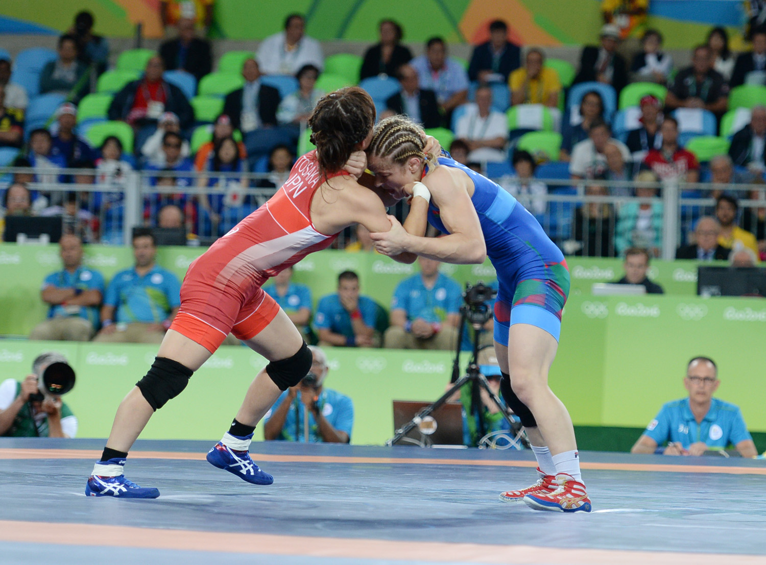 Wrestling at the 2016 Summer Olympics, Stadnik vs Tosaka